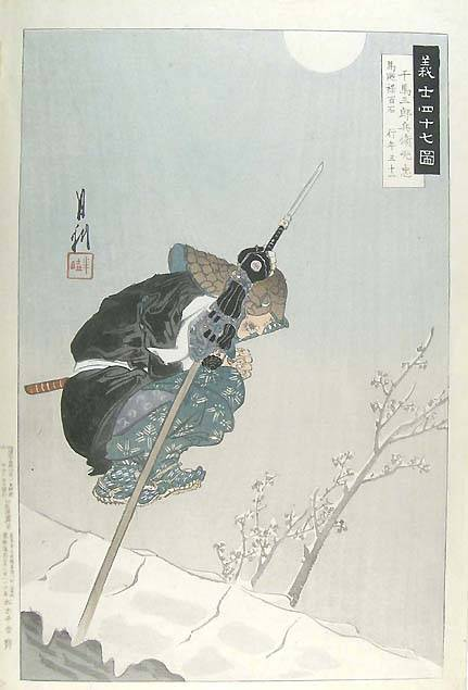 Ronin are masterless samurai. Chushingura is the true story of 47 samurai who became masterless in 1701, after their lord had been forced to commit ritual suicide (seppuku) for assaulting a court official who had insulted him. They avenged him by killing the court official after patiently planning for over a year. They were themselves then forced to commit seppuku.